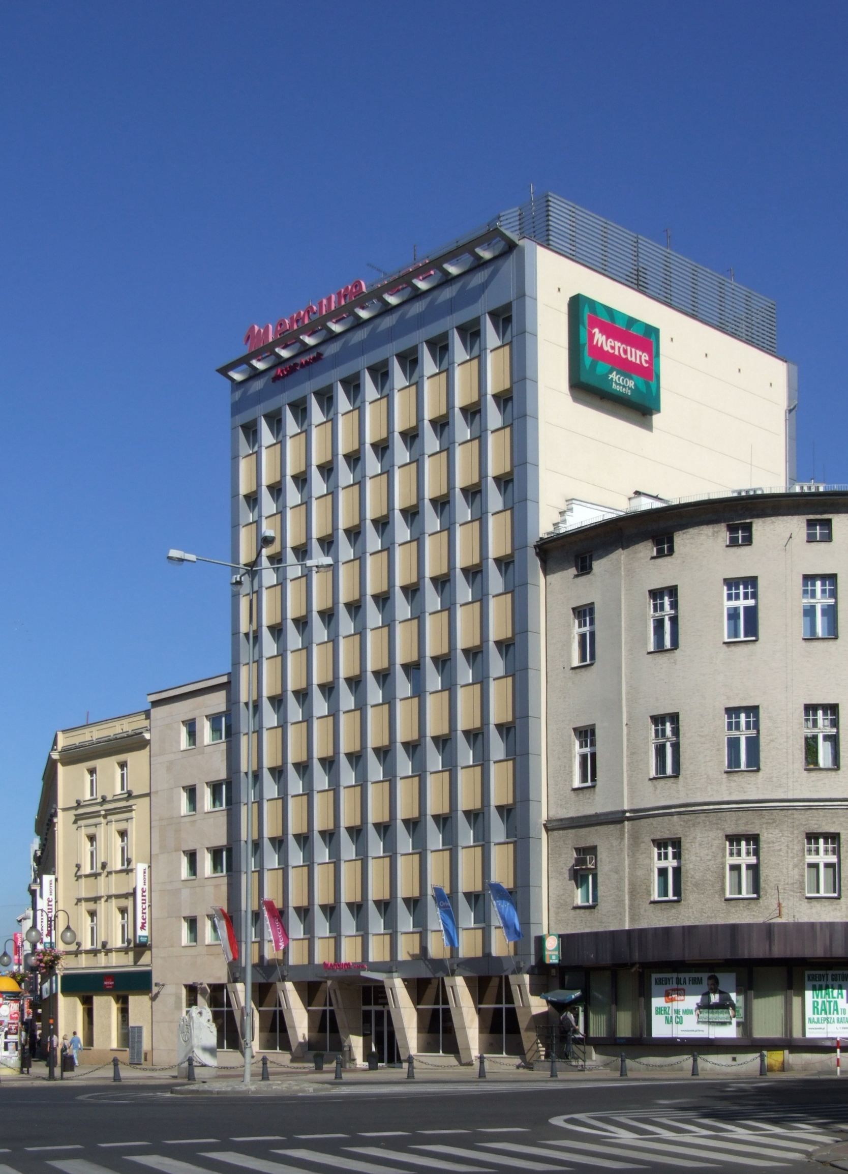 Hotel "Mercure" in Opole (Oppeln)